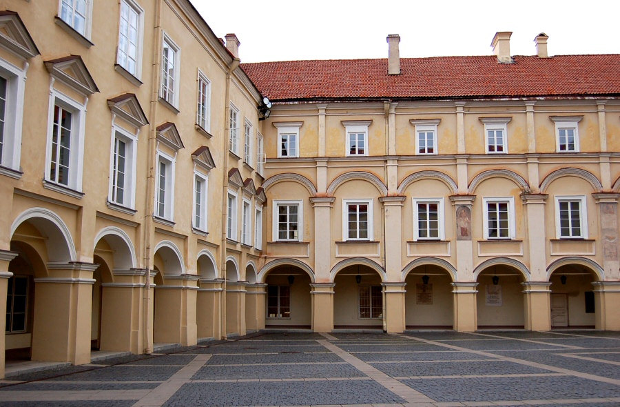 The Grand Courtyard of Vilnius University, Lithuania